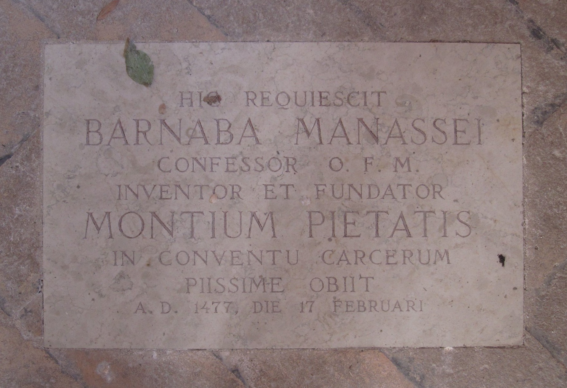 Lapide commemorativa del Beato Barnaba Manassei da Terni (XV secolo, Eremo delle Carceri, Assisi).